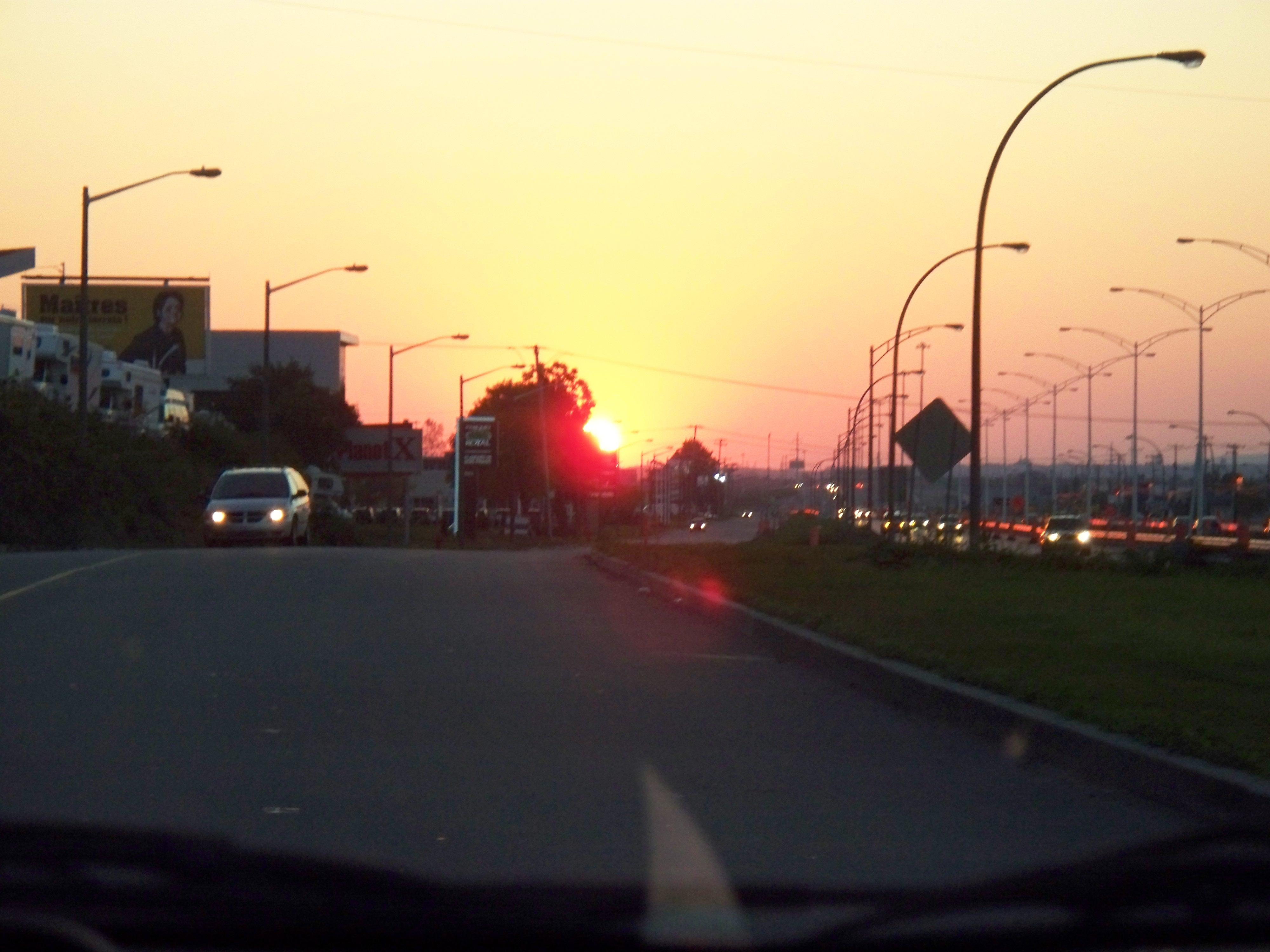 Sunset in quarter St-Sacrement, arrondisment Ste-Foy-Sillery-Cap-Rouge.